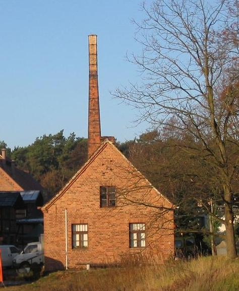 Renovated fabrication building from 1861 (museum today) in the open air museum Glashütte (german for „glassworks“). The village Glashütte is a part of the town Baruth in the district Teltow Fläming of the German state Brandenburg.